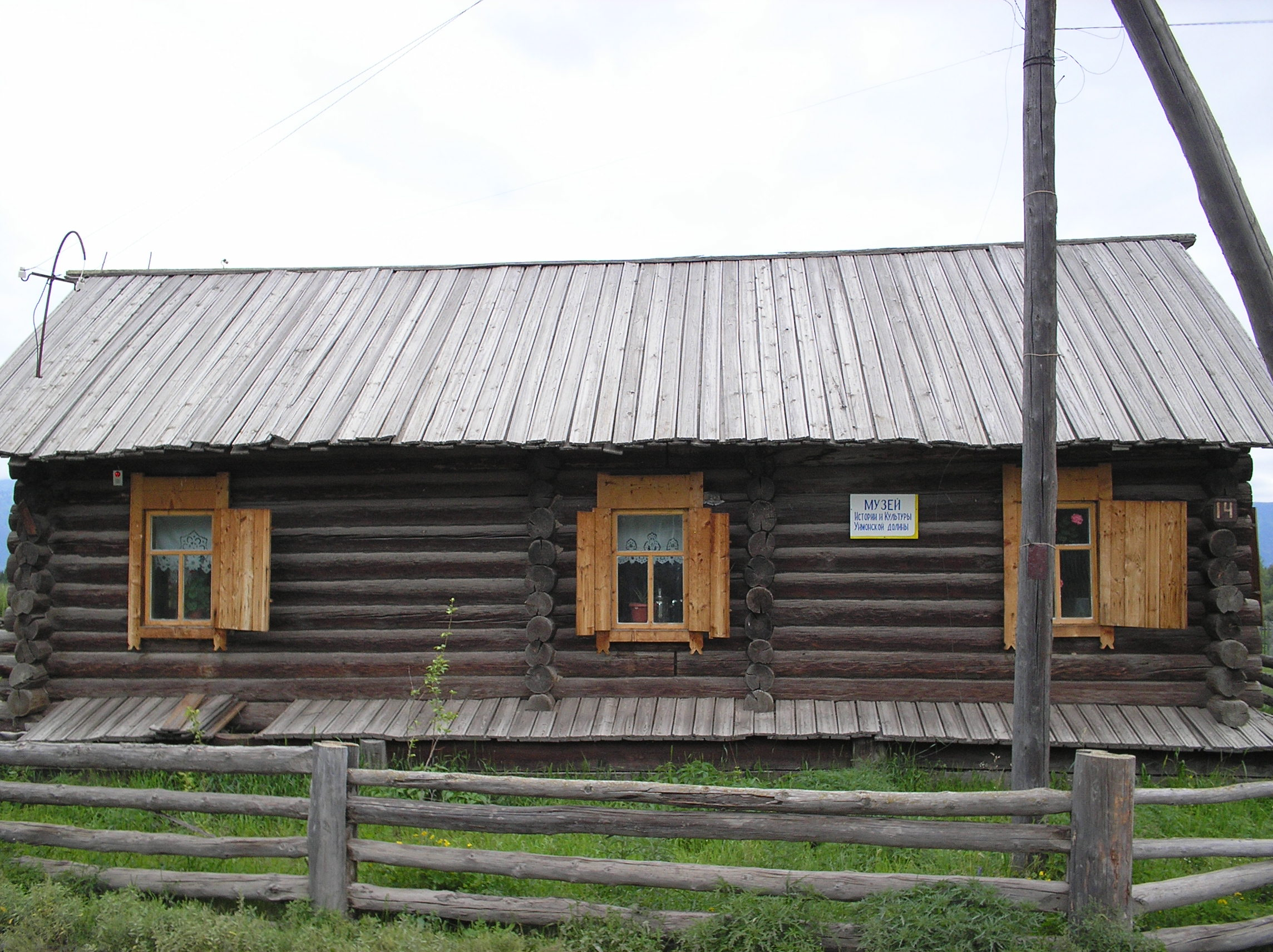 Museum of the History and Culture of the Uymon Valley (Museum of Old Believers) in Verkh-Uymon